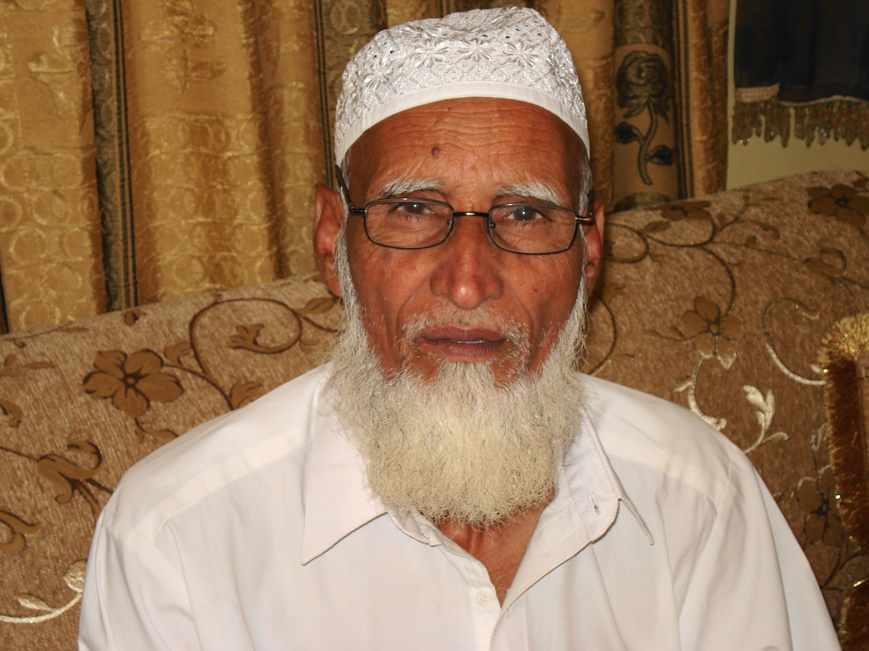 Punjabi baba